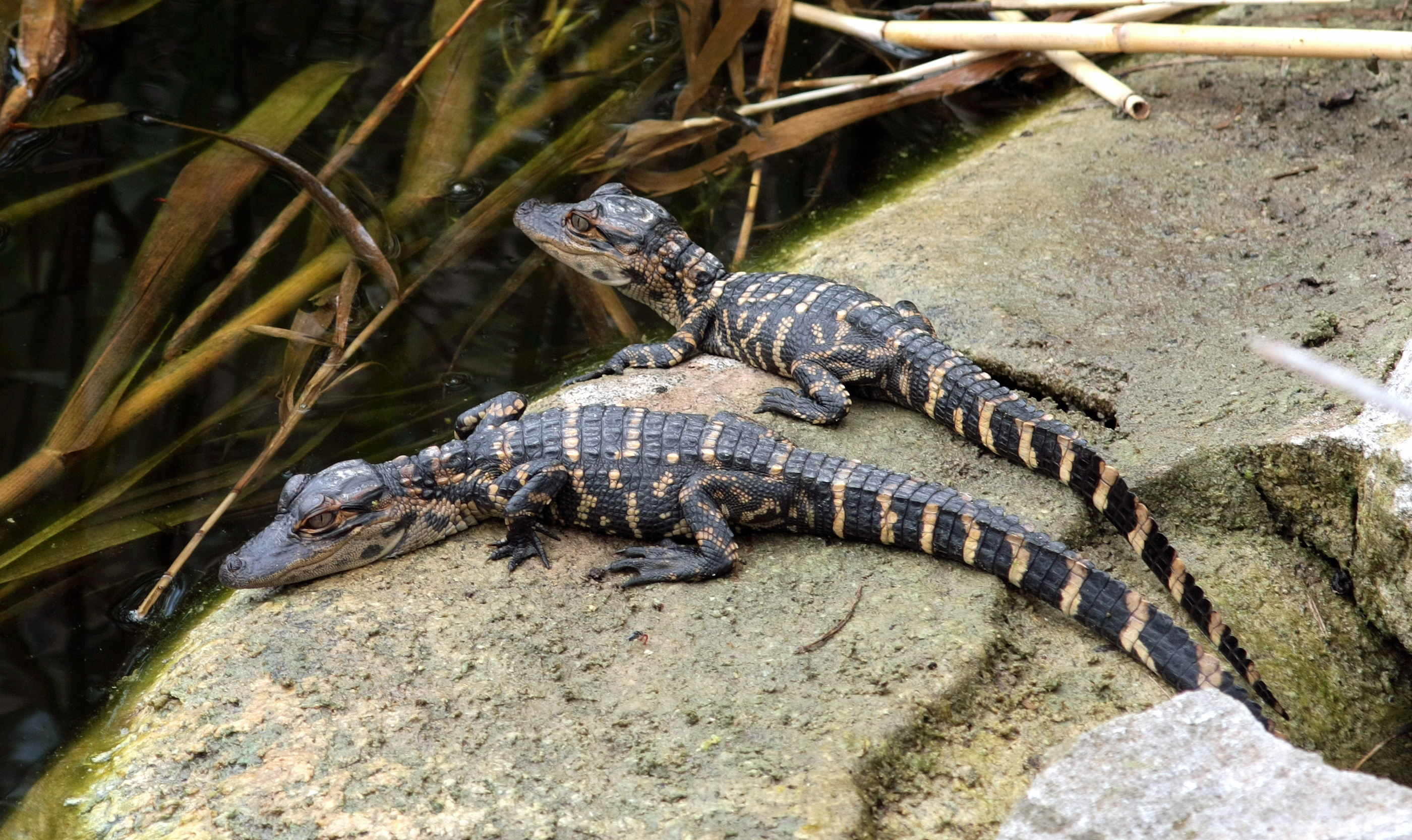 Two baby American alligators, Miami-Dade county, Florida